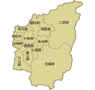 Nantou County Administrative Division中文（台灣）: 南投縣行政區劃。